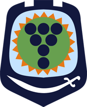 Coat of arms of the city and municipality of Negotin in Serbia